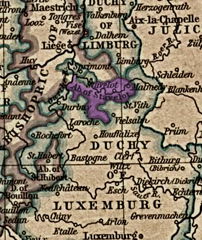 Imperial Abbey of Stavelot-Malmedy